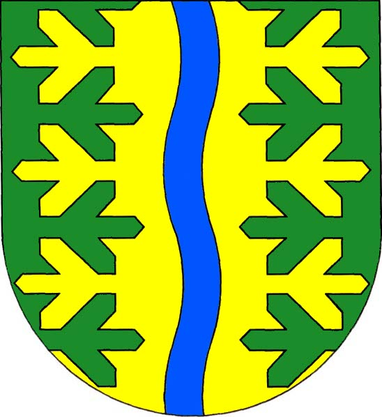 Coat of arms of Stará Voda municipality, Cheb District, Czech Republic, granted to the municipality 7 October 2003.